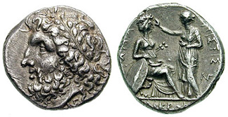 Italia, Magna Graecia: Bruttium (nowdays Calabria, Lokroi Epizephyrioi nowdays Locri. Circa 275-270 BC. AR Nomos (7.24 g). ΛΟΚΡΩΝ, laureate head of Zeus left; NE monogram below [ΡΩΜΑ] left, [ΠΙΣΤΙΣ] right, [ΛΟΚΡΩΝ] in exergue, Roma seated right being crowned by Pistis. SNG ANS 531; SNG Lloyd 645.